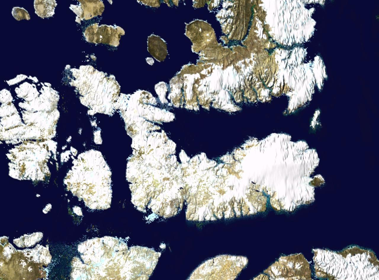 Devon Island in the Canadian Arctic.